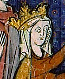 Adèle of Champagne